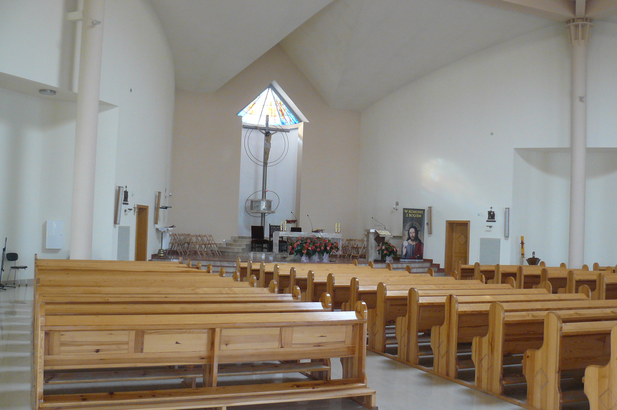 Przezmierowo, church interior.